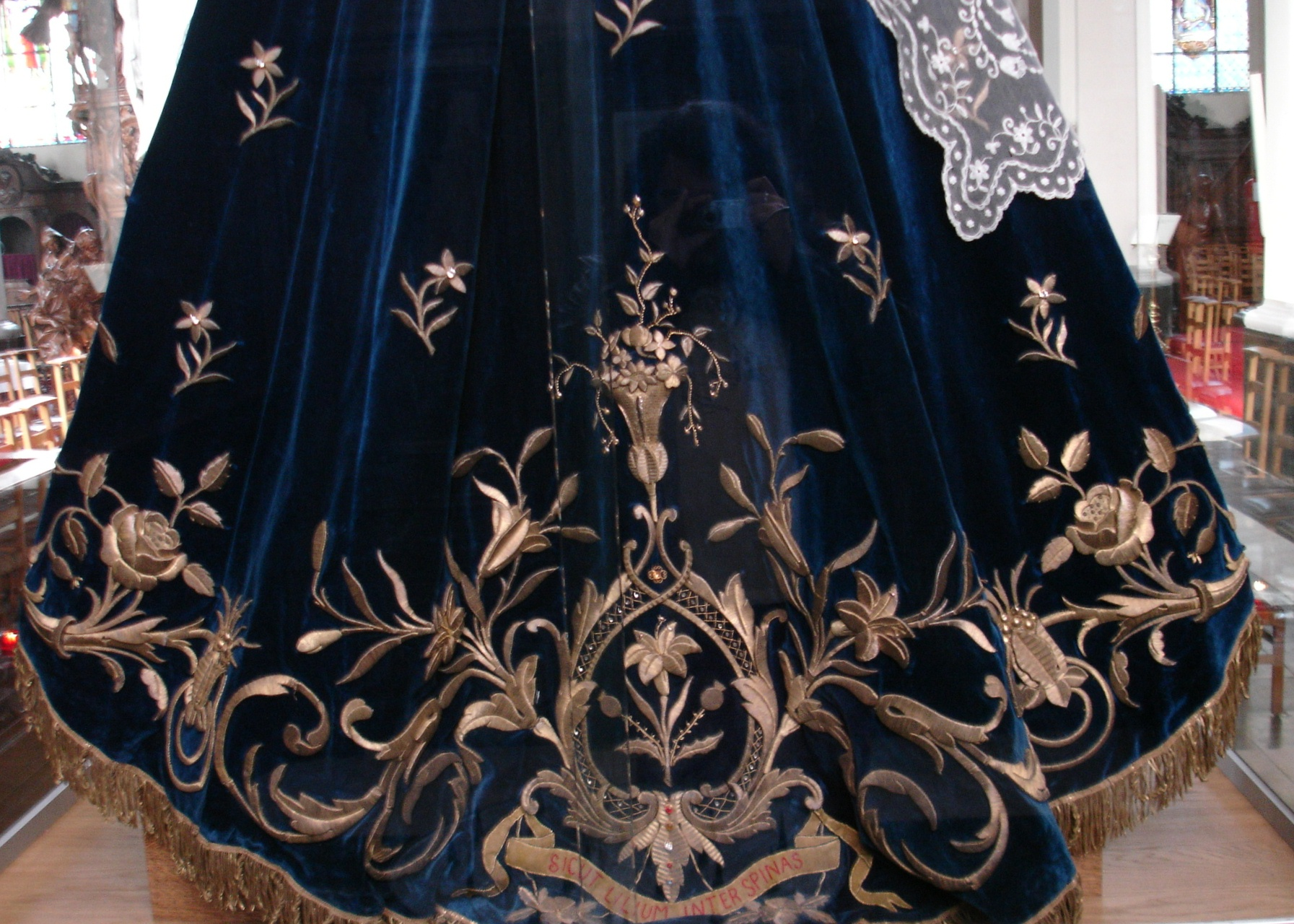 own work